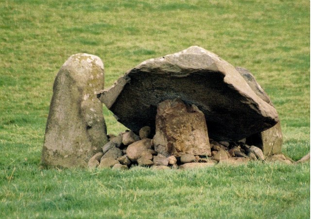 Penarth Burial Chamber. A close-up of the Neolithic Tomb.